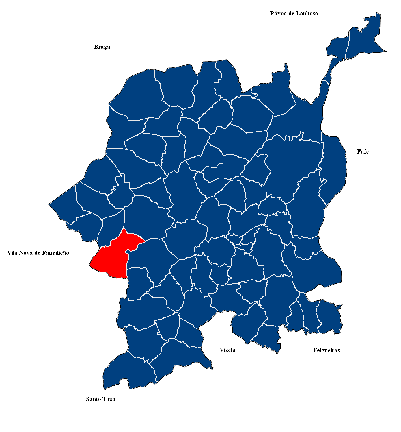 Map of Ronfe parish, Guimarães Municipality, Portugal